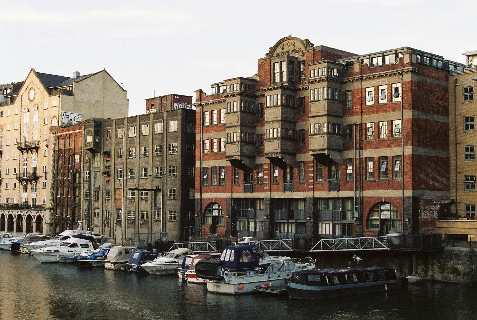 The WCA warehouse on Redcliffe Wharf in Bristol. I've always loved this building. Compare its state in 1990.